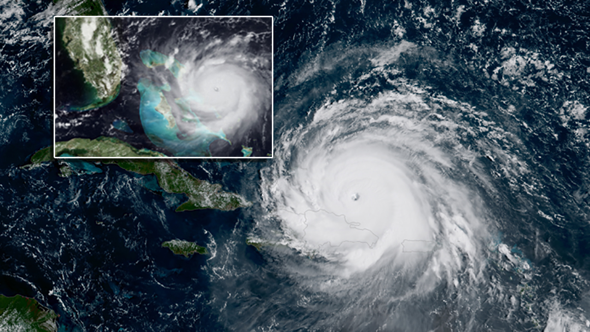 Satellite imagery of Hurricane Andrew (inset, at left) from Aug. 23, 1992, is digitally superimposed, to scale, over imagery of Hurricane Irma on Sept. 7, 2017.